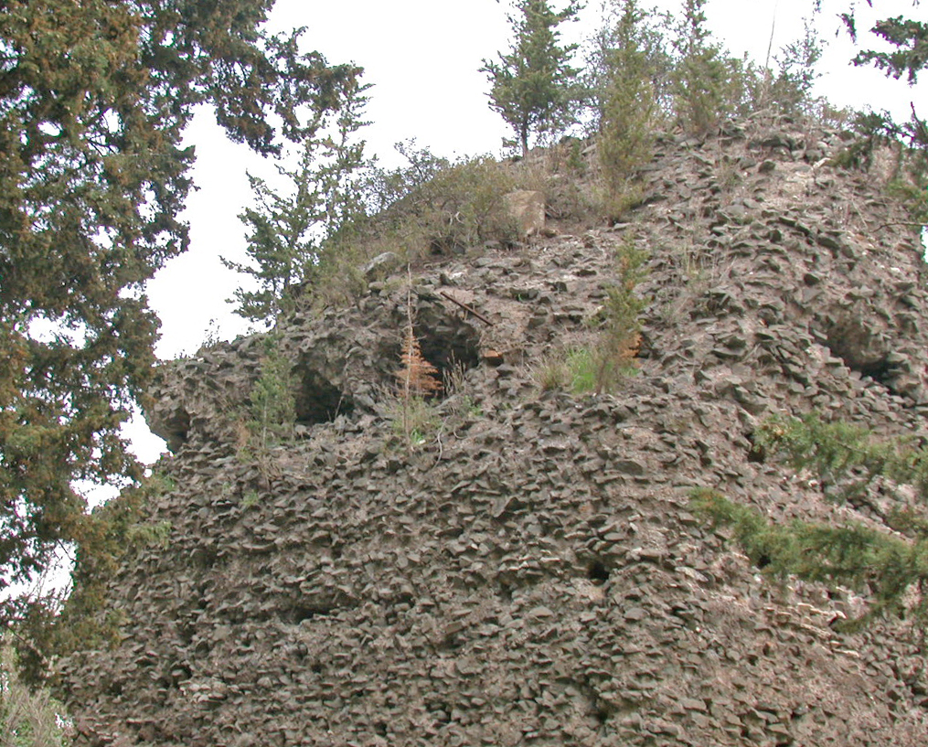 Italy, Rome, Via Appia Antica, tomb. The remains show the internal core of the building, made in roman concrete (cementizio: opus caementicium) Personal photo (march 2002) by MM in it.wiki